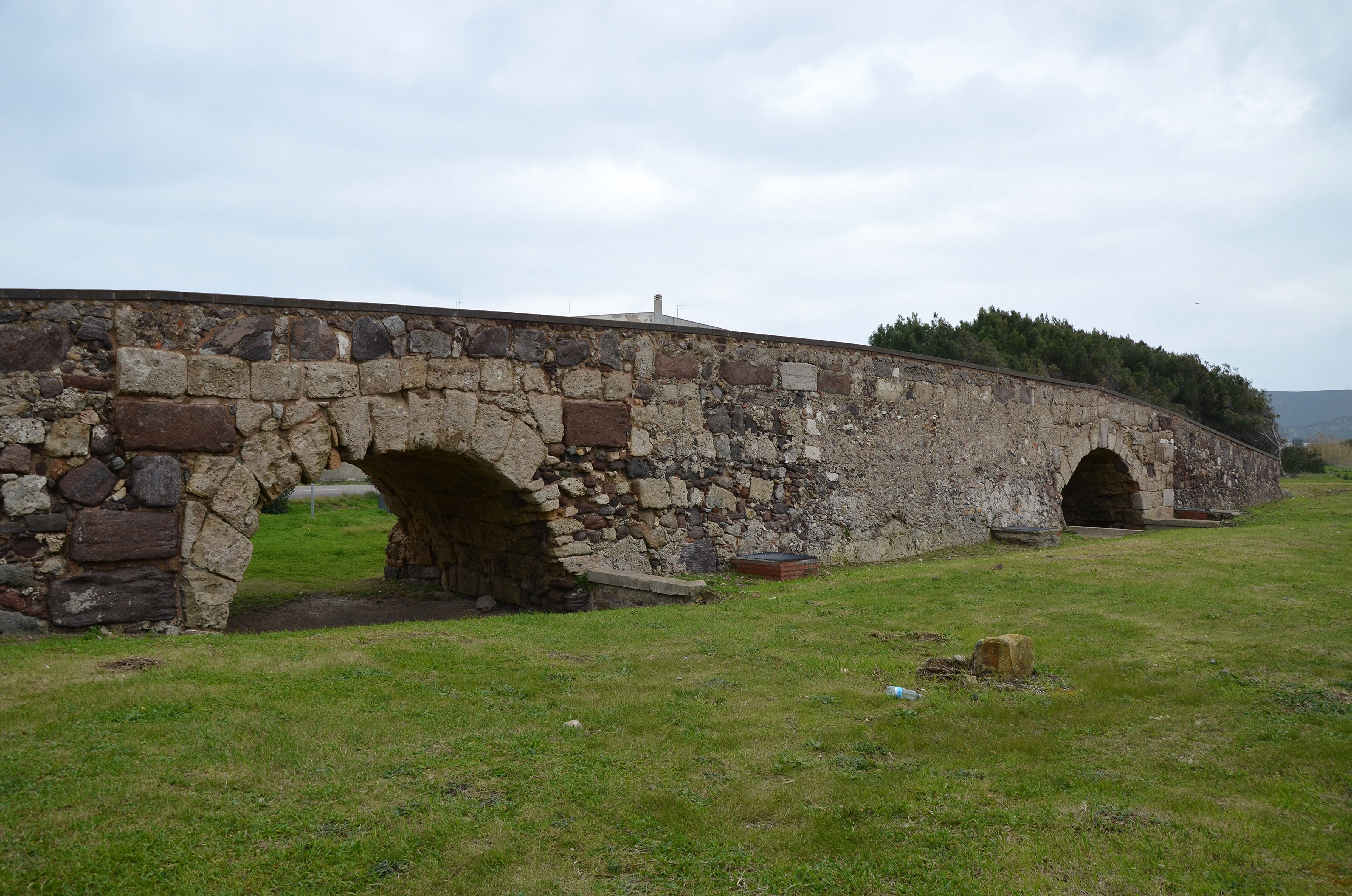 Roman bridge, restructured and restored in medieval times, Sant'Antioco, Sardinia